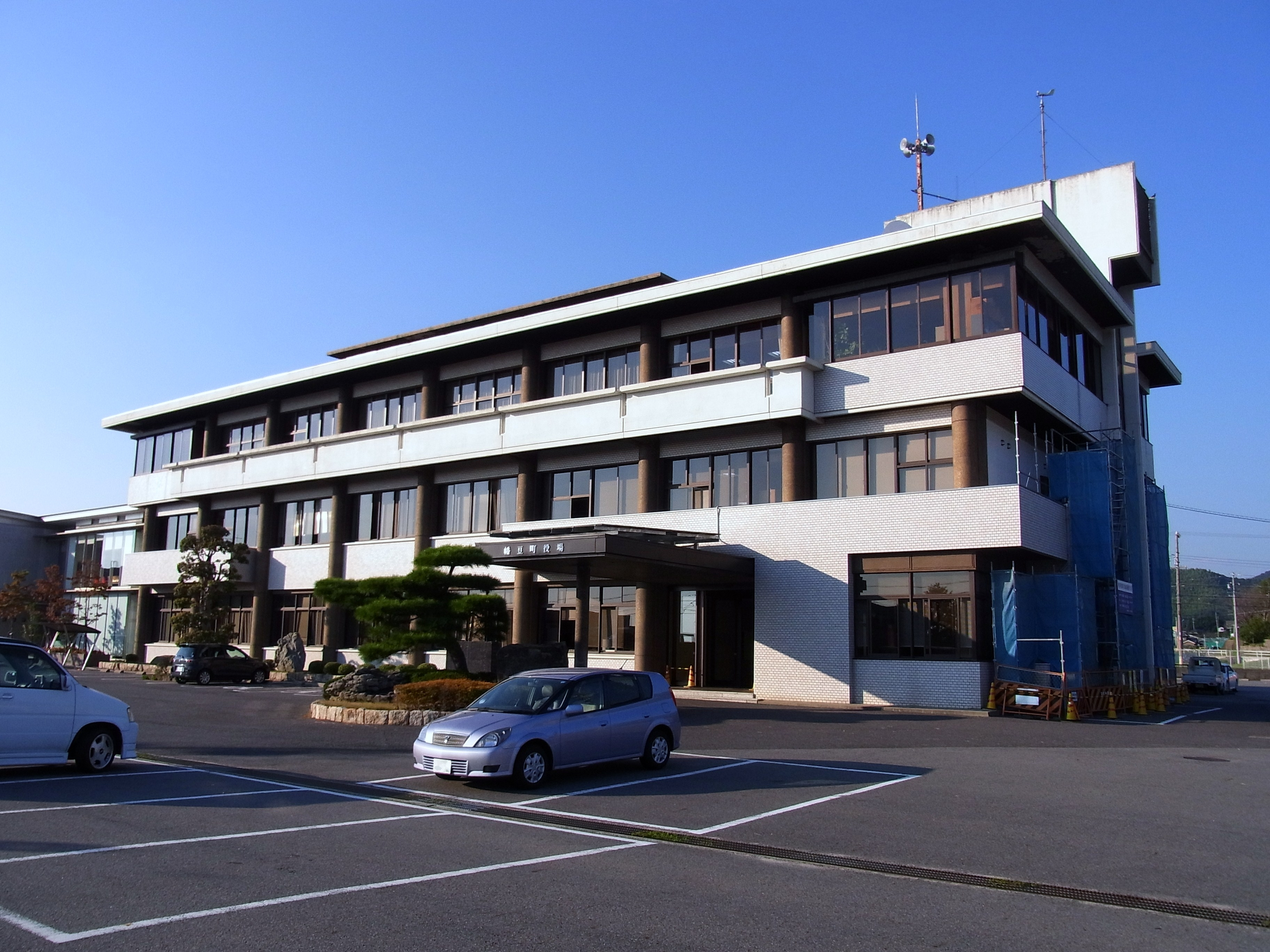 Hazu town office in Aichi prefecture.